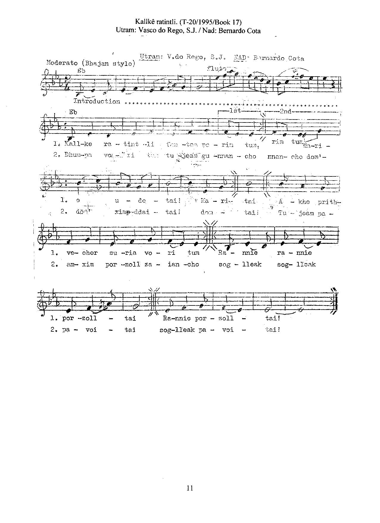 Kallke Ratintli - Gaion ( 2 )